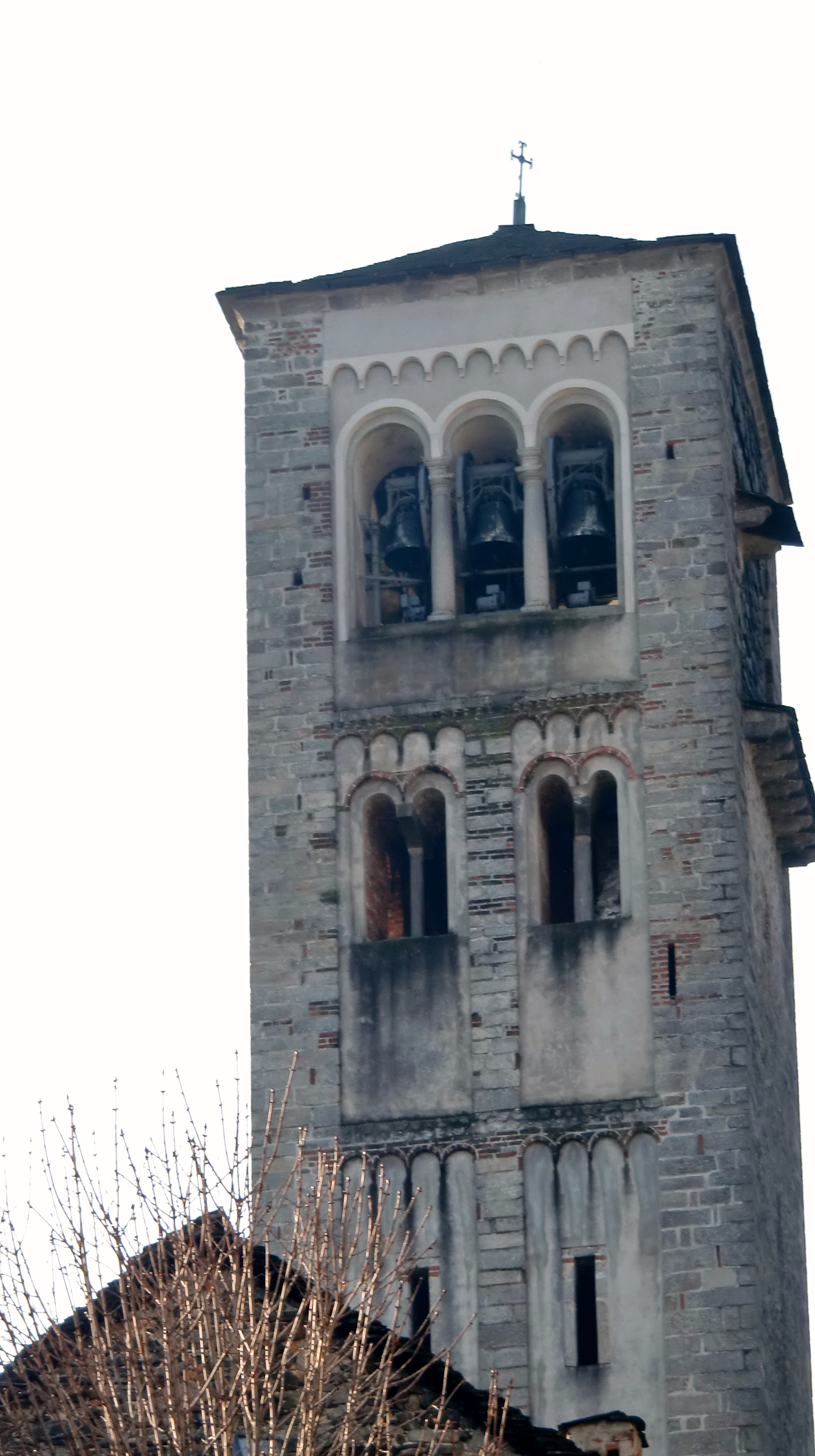 Orta San Giulio, Basilica, the bell tower